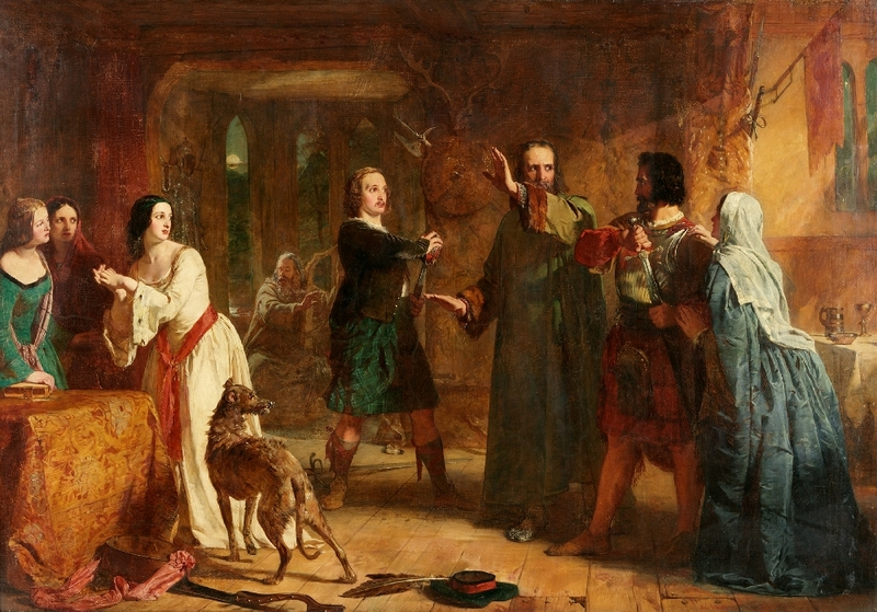 Illustration for The Lady of the Lake, poem by Walter Scott.